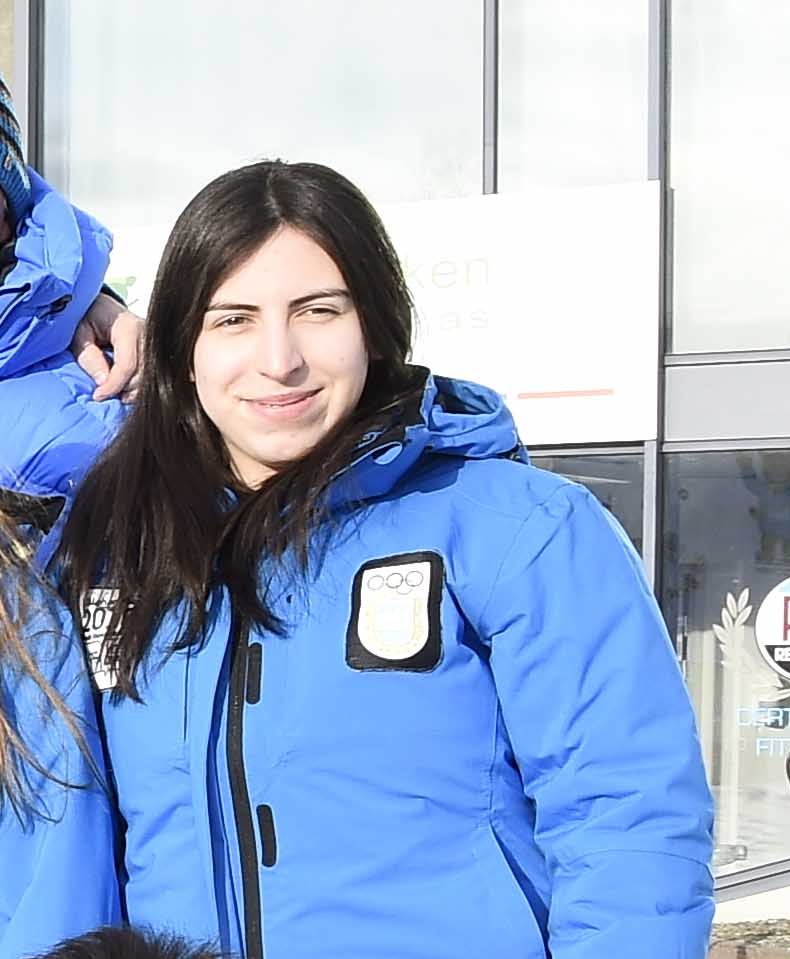 Verónica Ravenna during the 2016 Winter Youth Olympics.